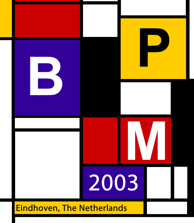 This the the logo of the first International Conference on Business Process Management that took place in Eindhoven in 2003